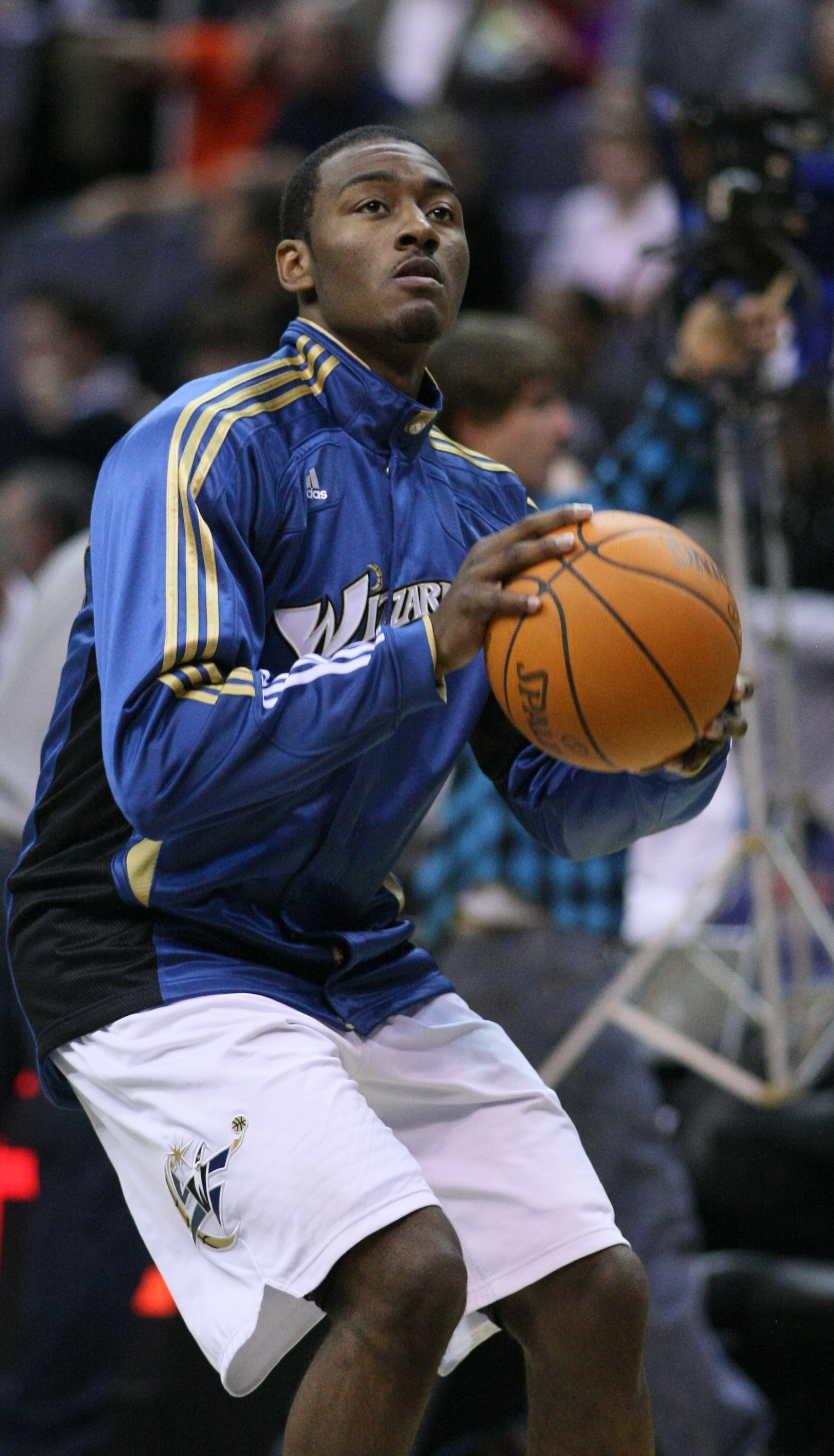 Washington Wizards v/s Philadelphia 76ers November 23, 2010